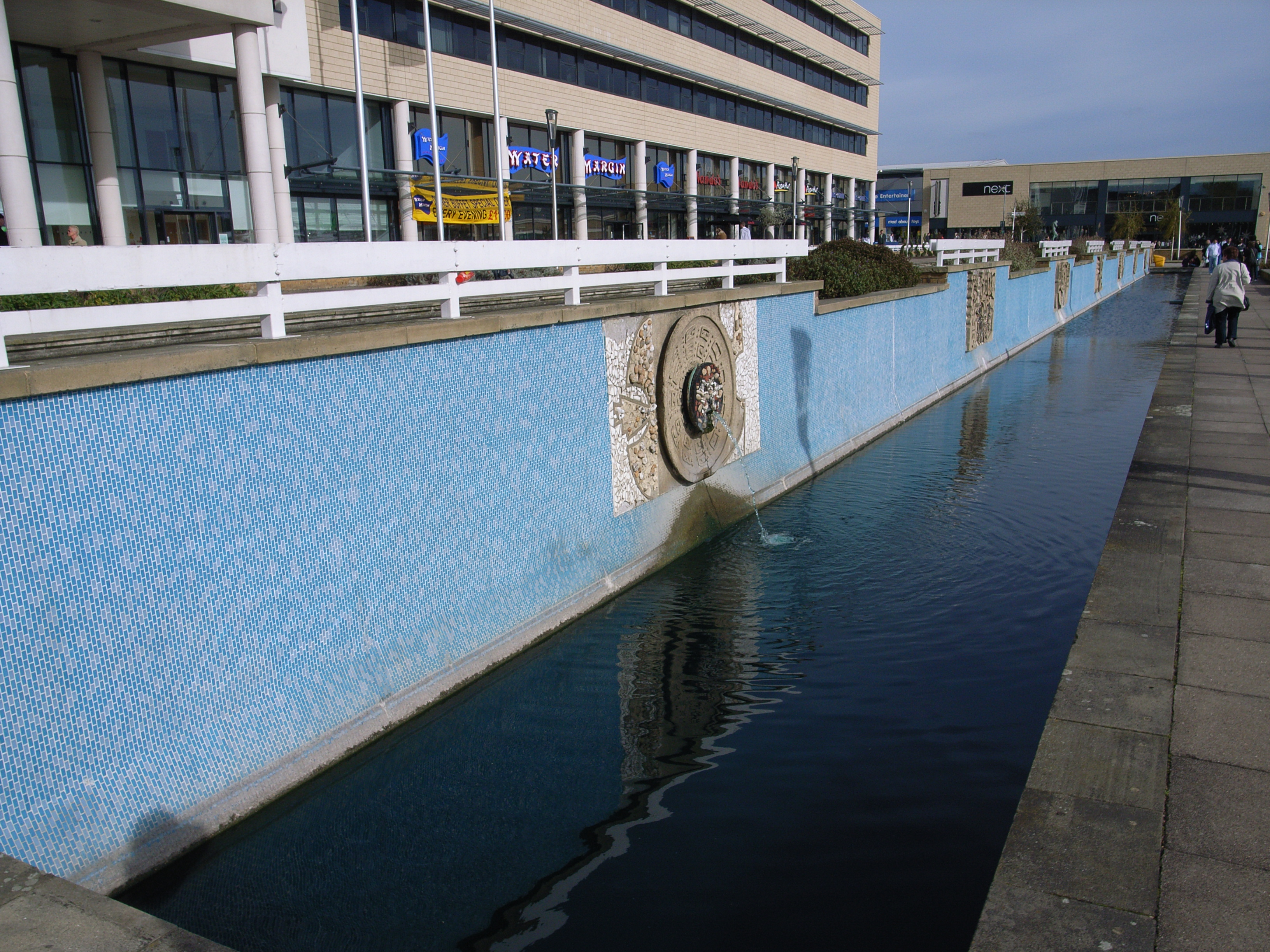 The Water Gardens (1960-3), Harlow, Essex by Frederick Gibberd and Gerry Perrin, with sculpture by William Mitchell. Photo taken on a tour of Frederick Gibberd's work in London and Harlow with the 20th Century Society.